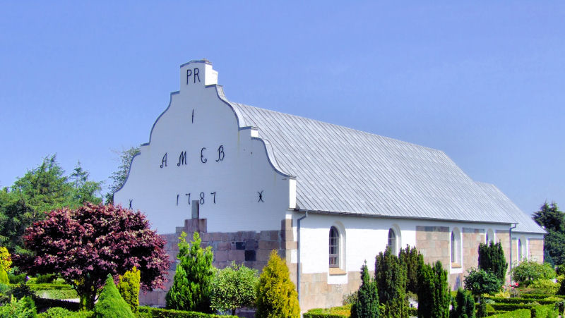 Tversted Kirke, danish church situated in the northern part of Jutland. Photo taken by Jørgen Larsen, 2006-07-06.